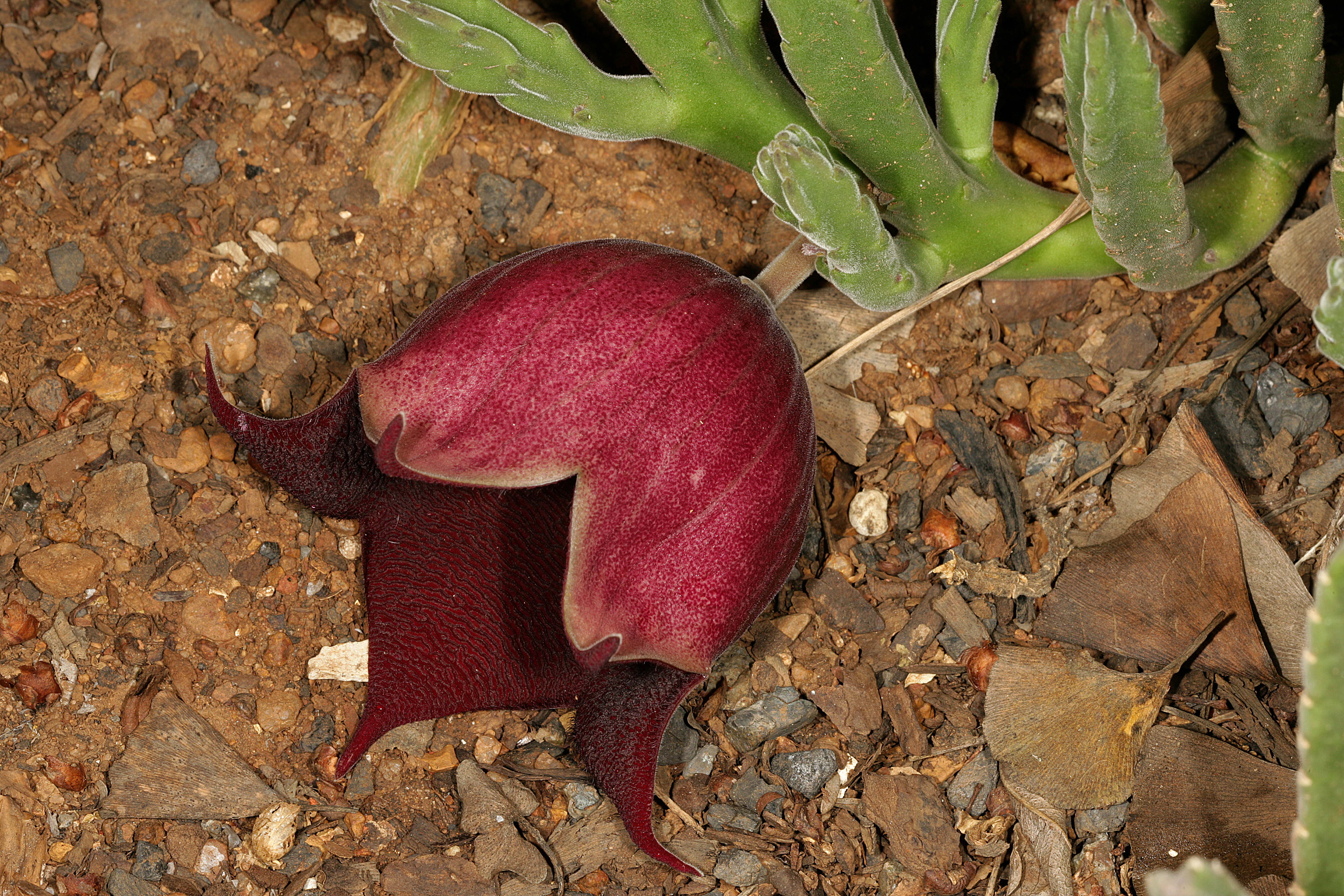 Stapelia leendertziae, plant in flower; Manie van der Schijff Botanical Garden, University of Pretoria, Pretoria, Gauteng, South Africa